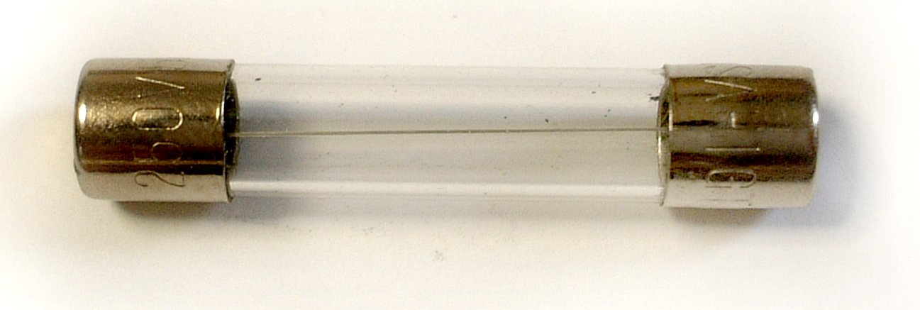 Fuse. Photo taken in Japan.